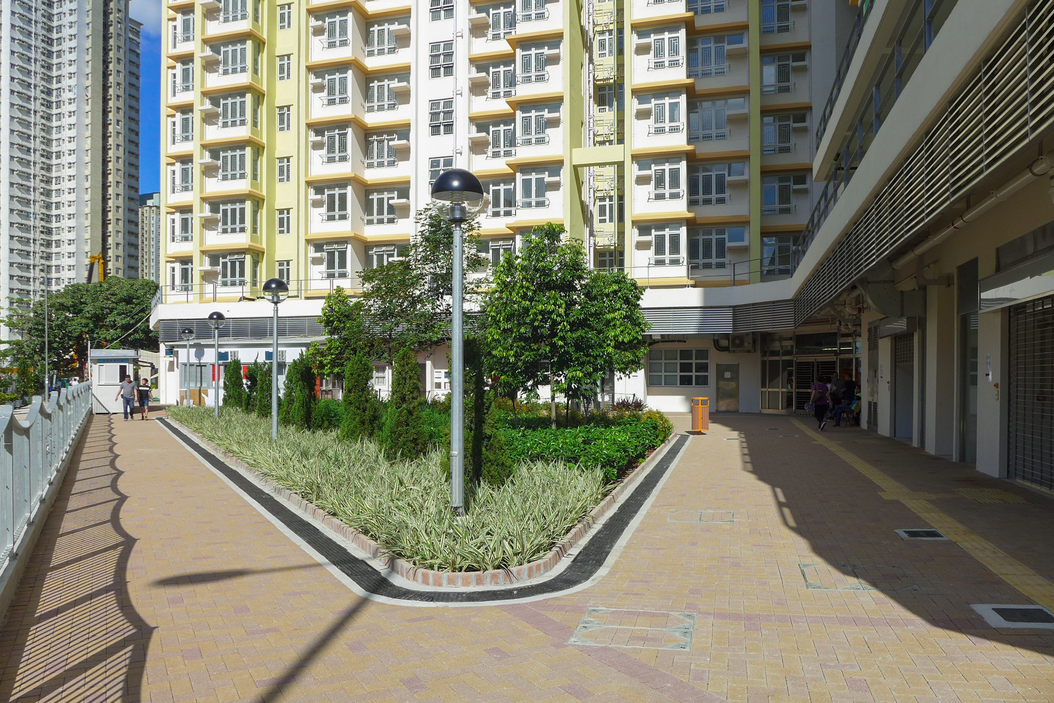 King Tai Court Entrance planting area